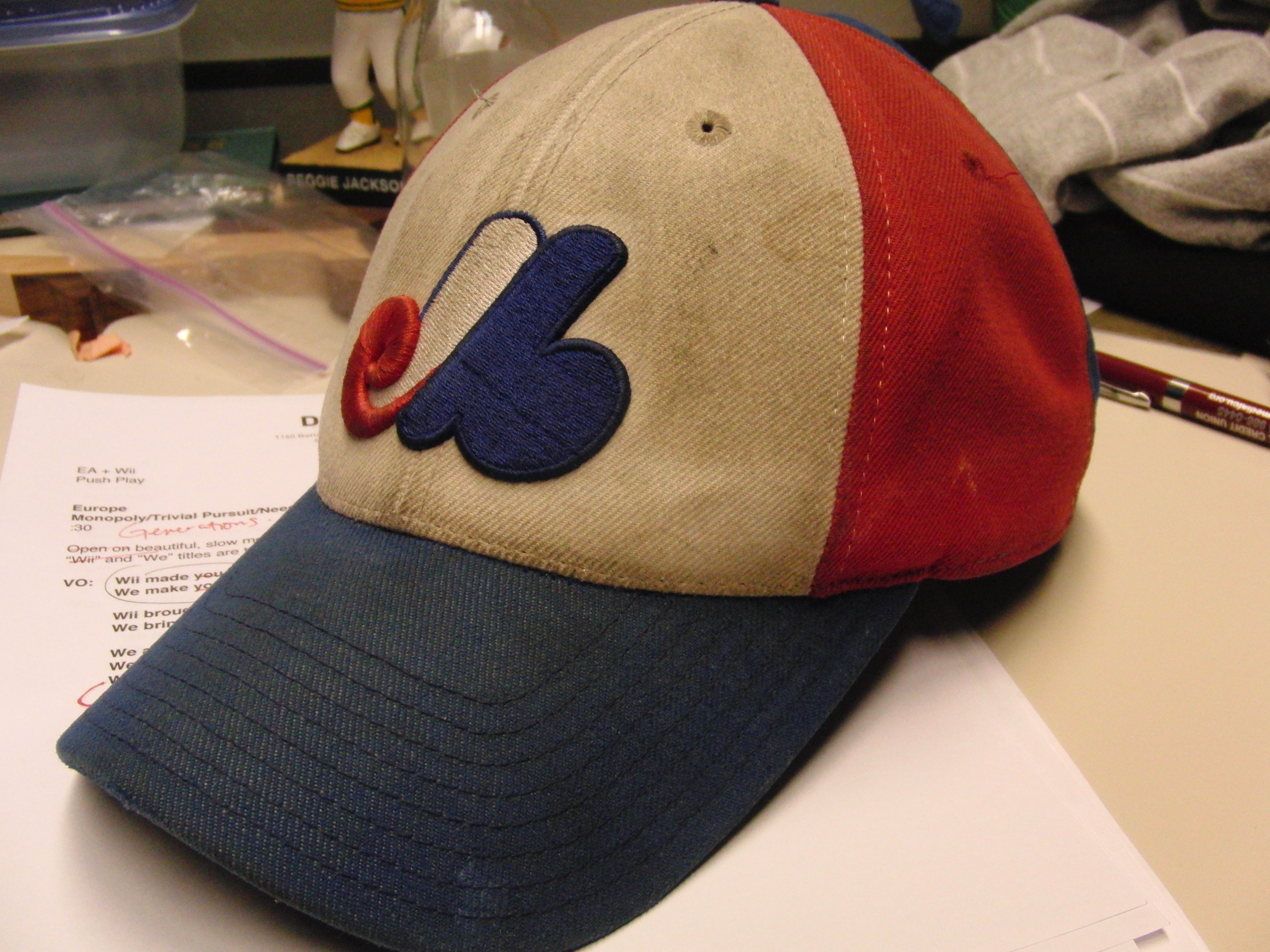 Montreal Expos baseball cap used by the Major League Baseball team during 1969 to 1991 seasons.